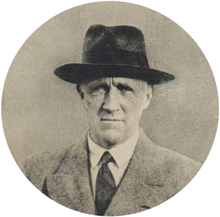 Photograph of Gerald Boland, lrish Politician, taken from a Fianna Fáil poster circa 1932